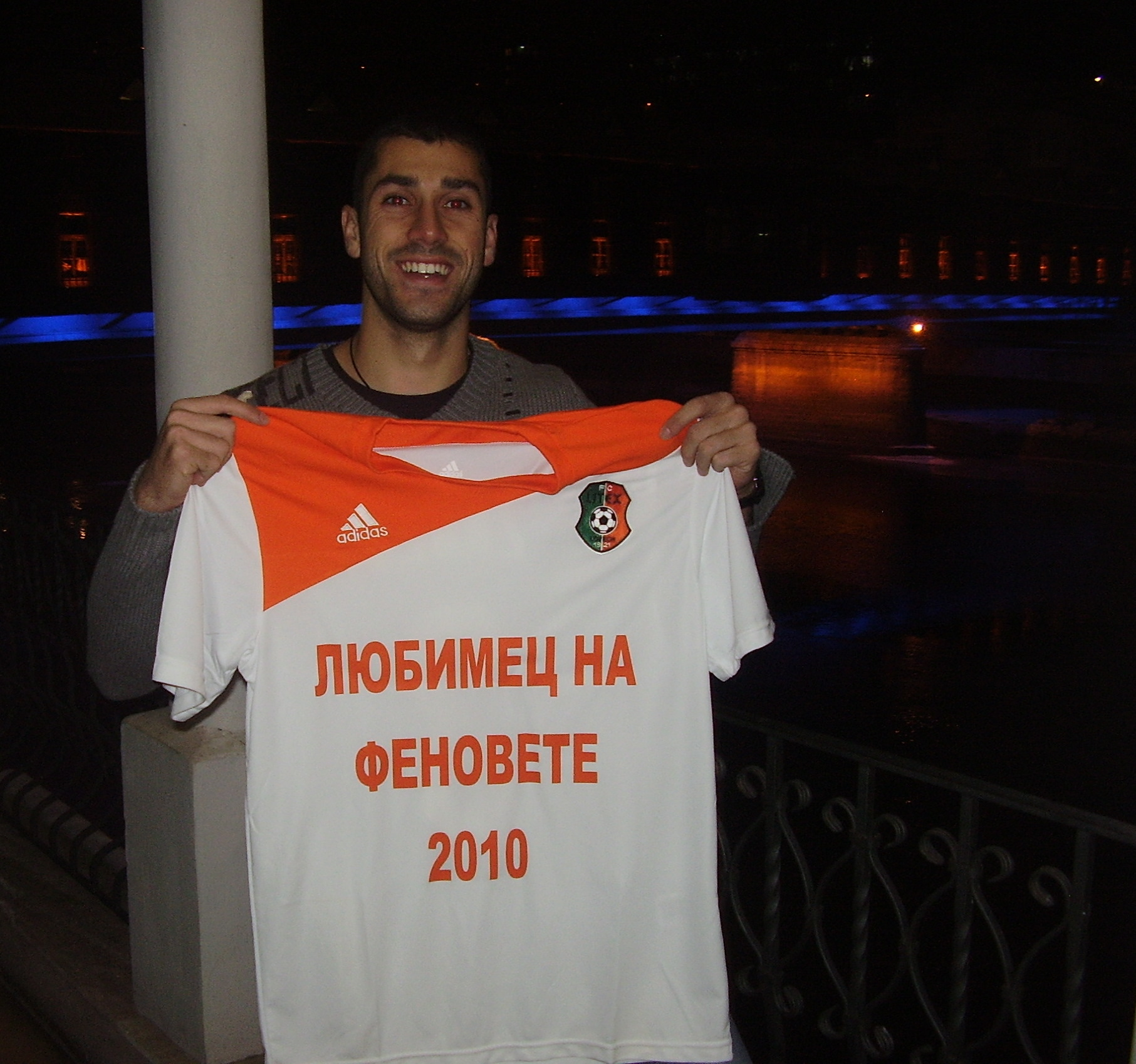 Petar Zanev - Favorite of the fans 2010